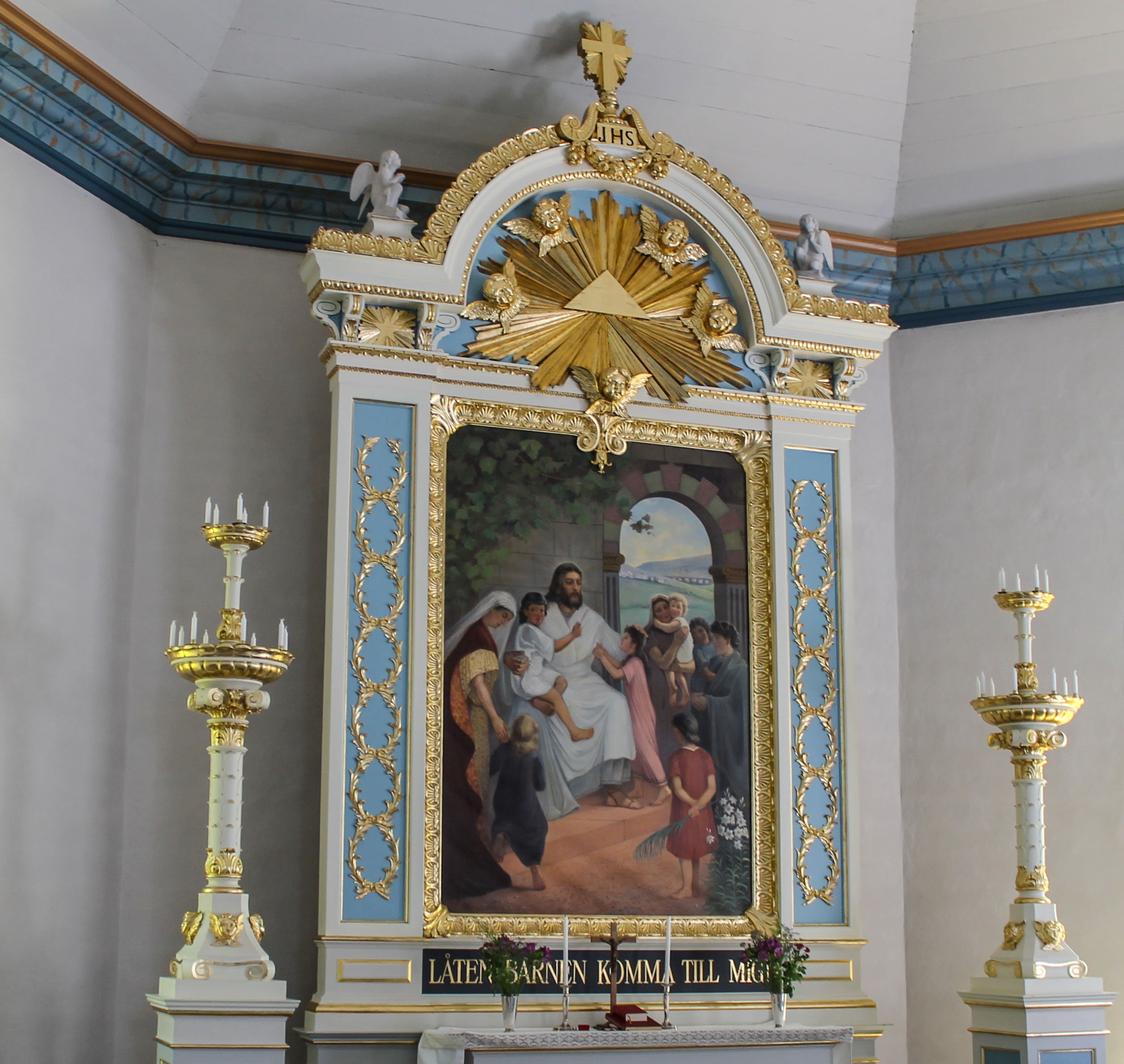 Sandby Church.The altarpiece, painted in 1892 by Gustav Lundqvist with the subject: "Let the children come to me".